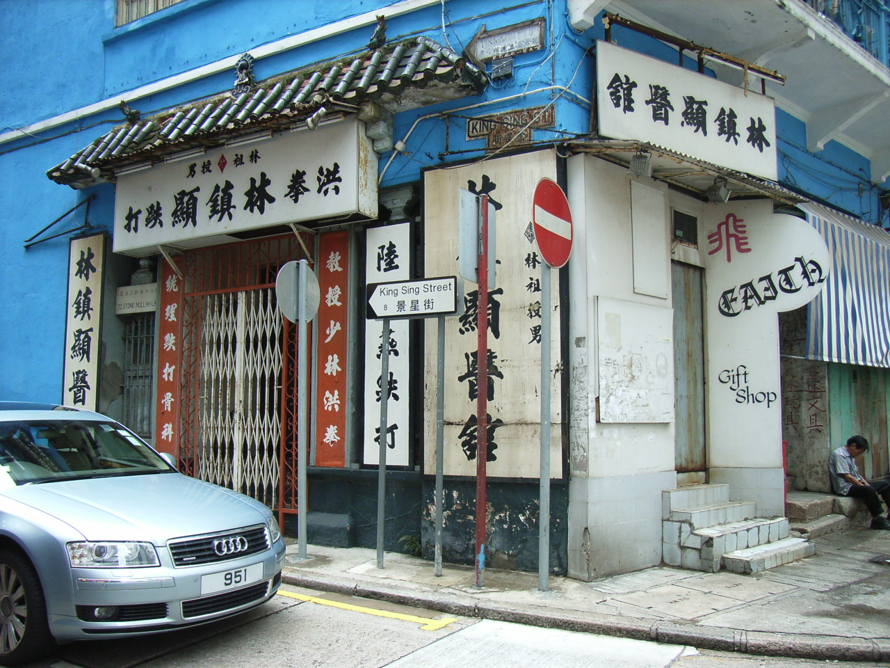 石水渠街, Stone Nullah Lane, Wanchai, Hong Kong Created by Jam Mei SUM